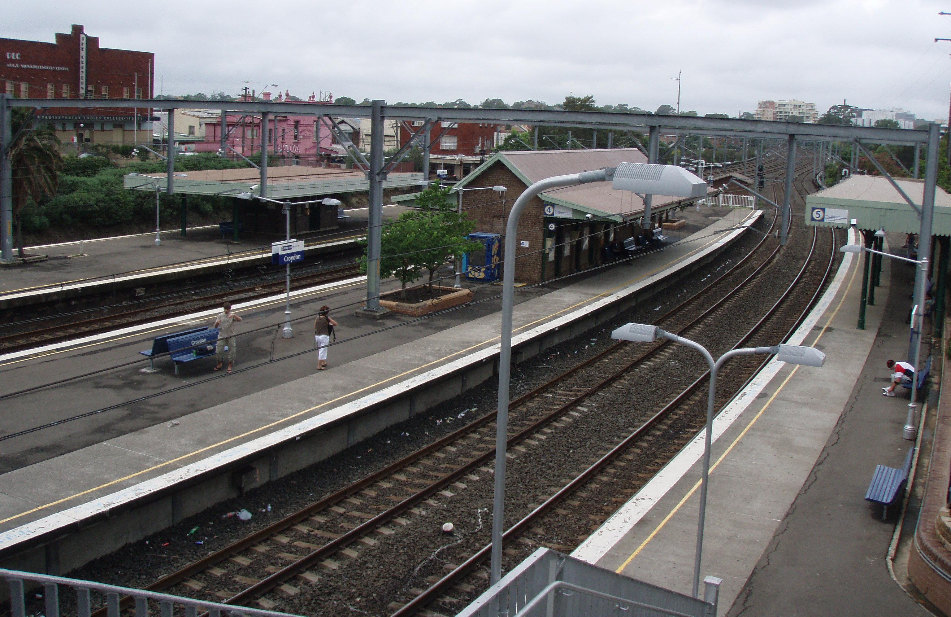 Croydon Railway Station Author: Erin Millner